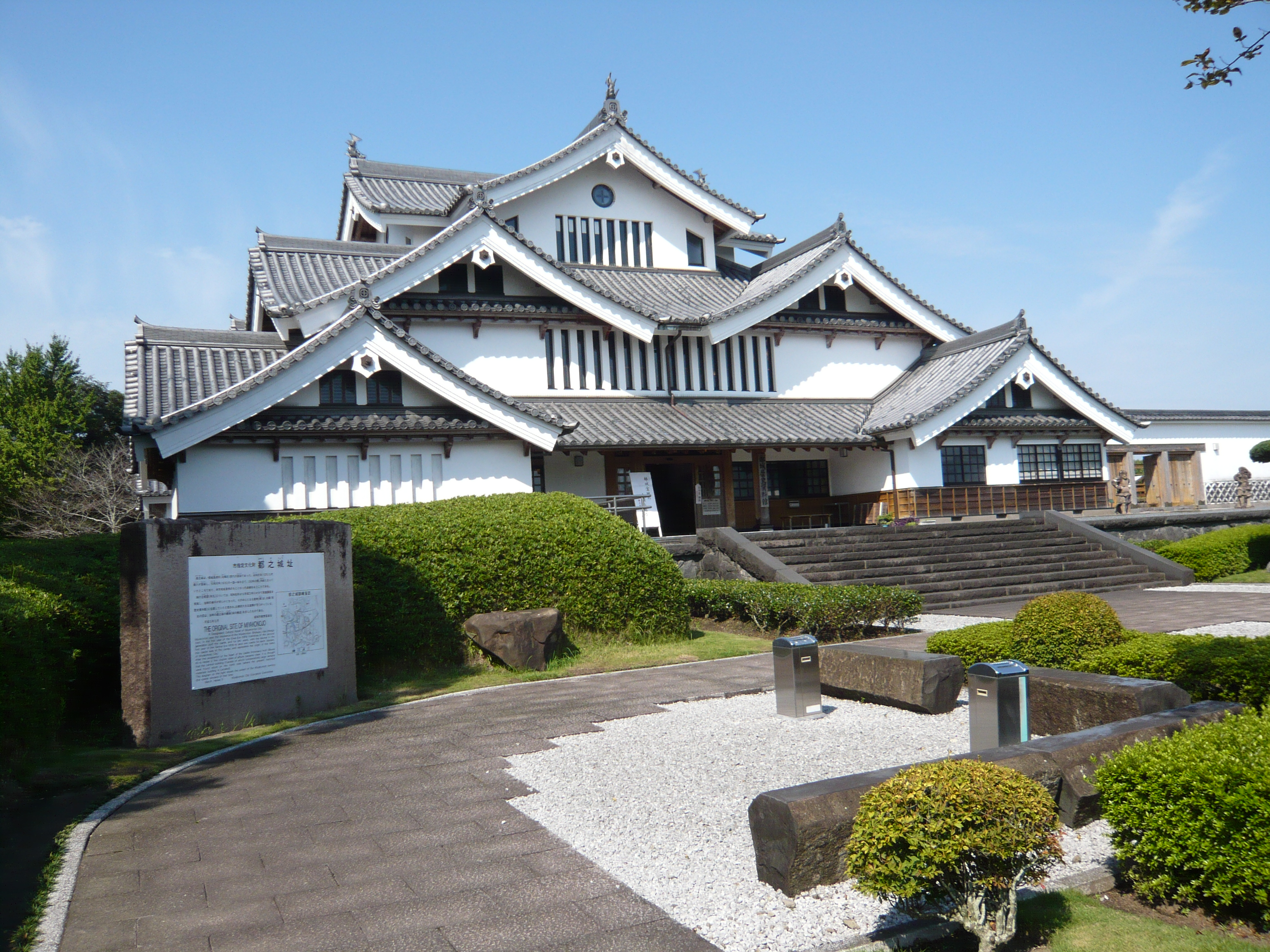 MIYAKONOJOU HISTORIAL MUSEUM JAPAN